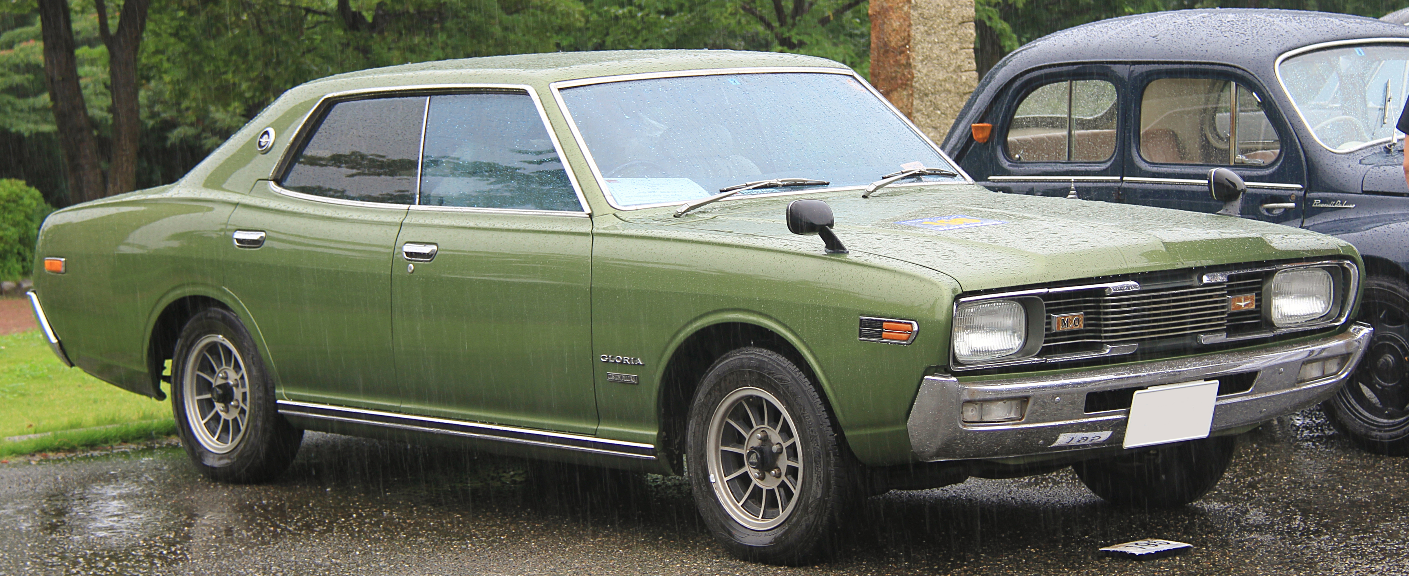 Nissan Gloria